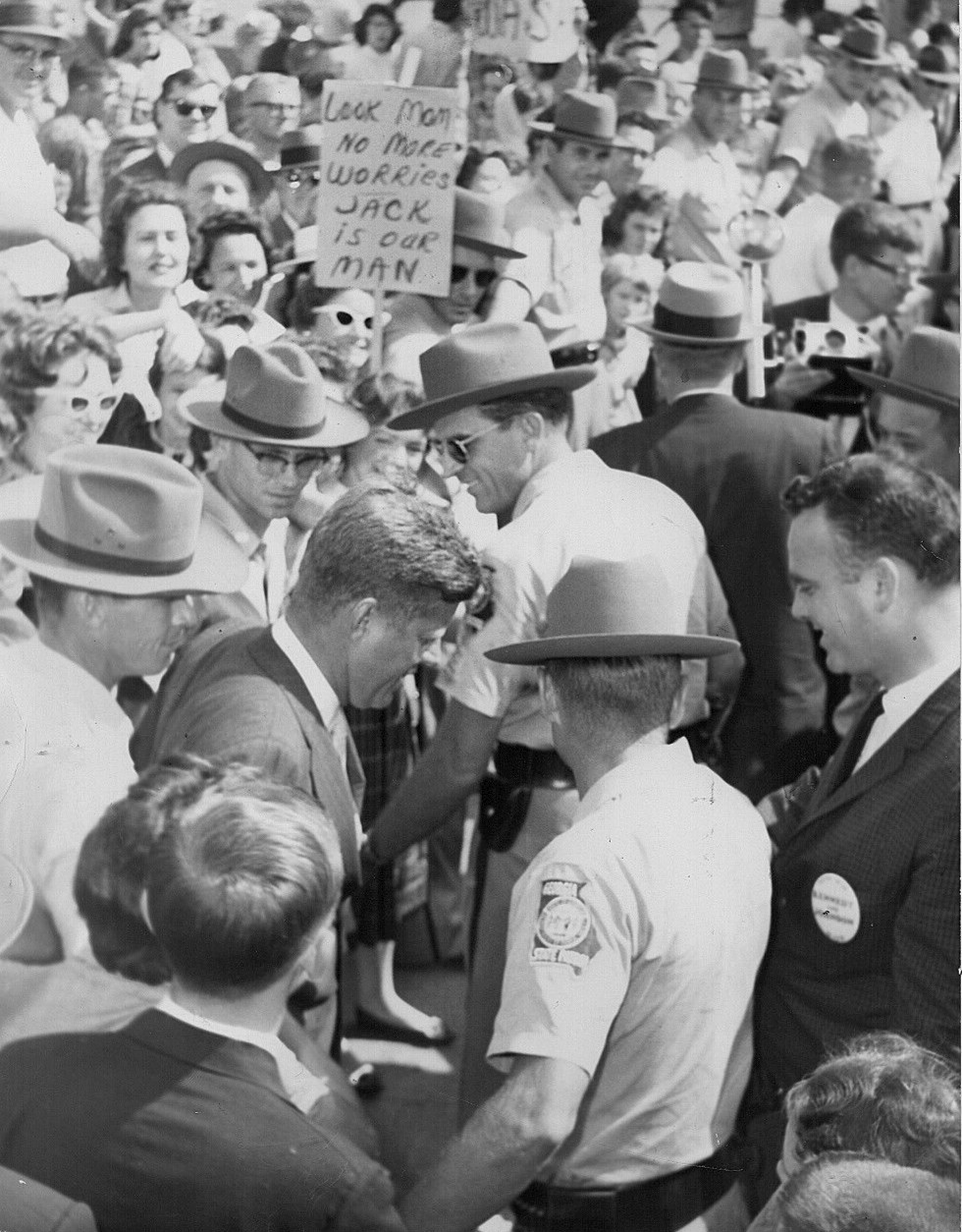 Photo of John F. Kennedy campaigning at Callaway Airport, LaGrange, Georgia, in 1960.